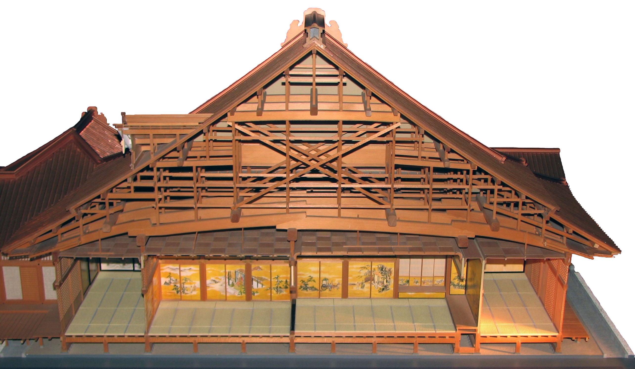 Model of the historic imperial palace in Edo (now Tokyo). The room displayed is the shiroshoin (White study room), used for meetings with the imperial messengers. The model is based on reconstruction blueprints from 1845.